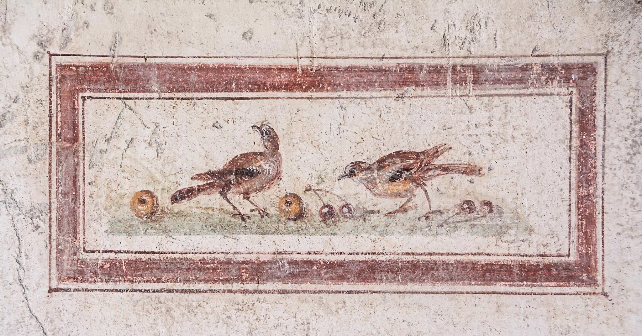 Fresco of Birds and Fruit from the House of the Prince of Naples Pompeii Plate 172 (2020)